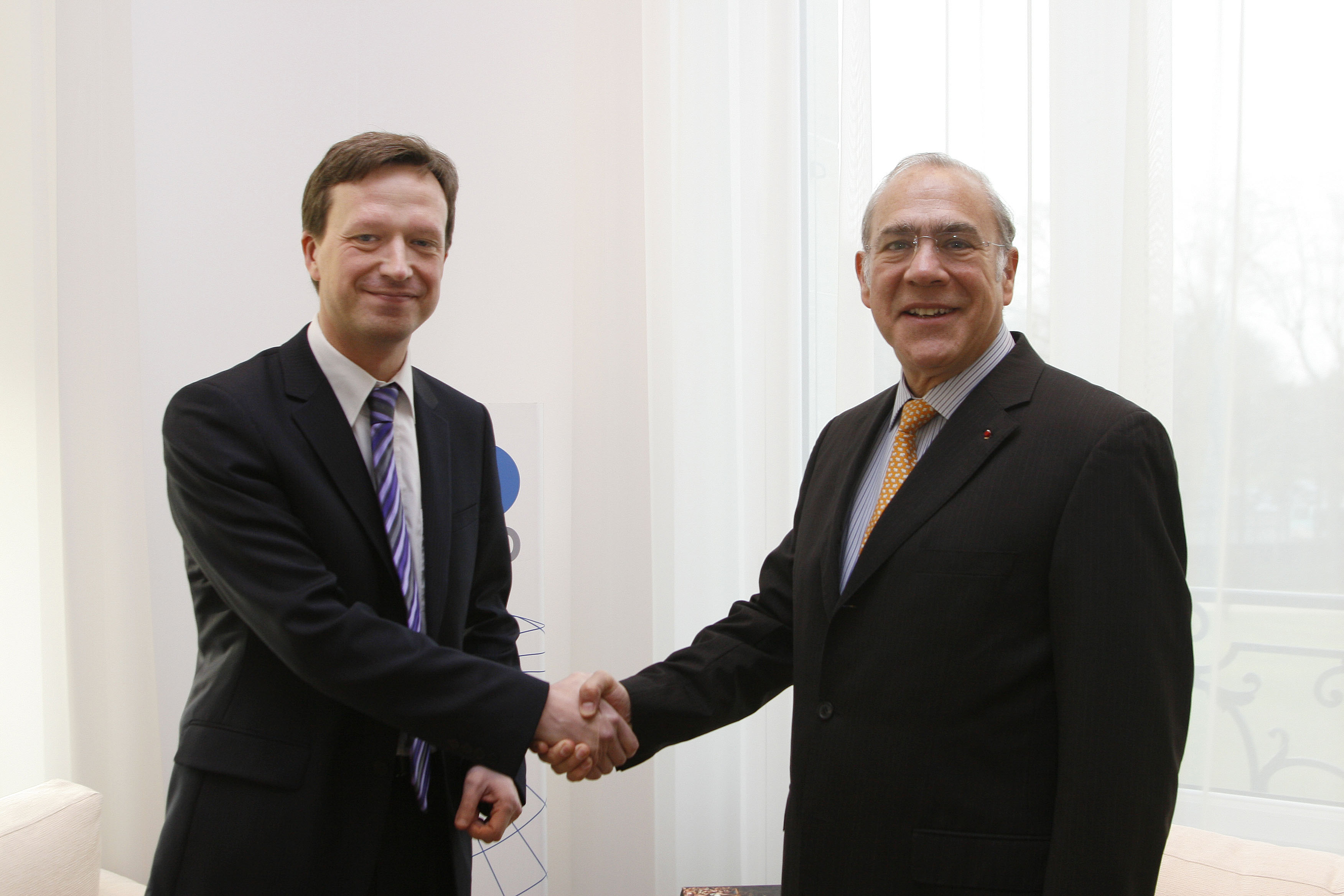 Estonian Ambassador to OECD Marten Kokk Presents Credentials to Secretary-General of the OECD Angel Gurria